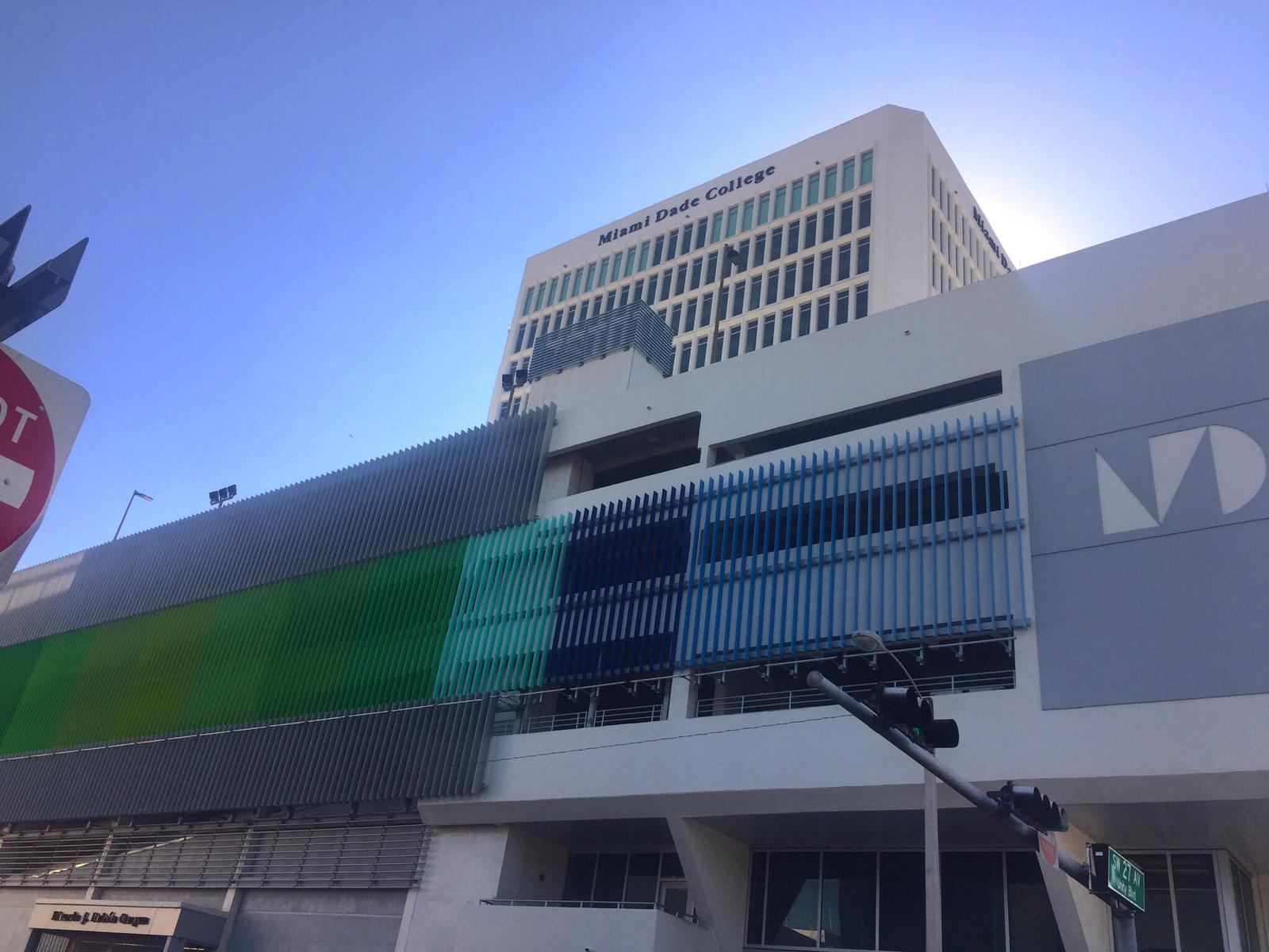 This picture was taken during the daytime showing the campus colorful building and it's percise location, this picture was taken with an iphone X. Taken by standing infront of it by the side walk.